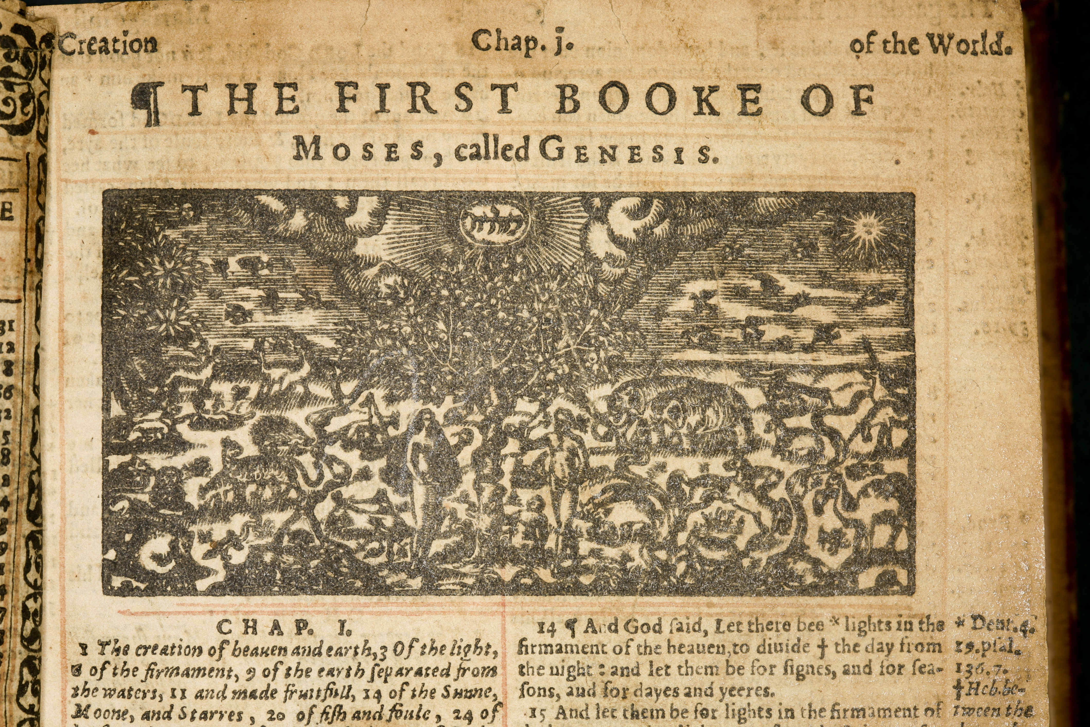 Intaglio,, copperplate print (KJV) 1631 Holy Bible, Robert Barker/John Bill, London. King James Version